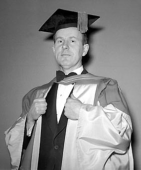 Lester B. Pearson Source: Archives of Ontario Digital Image Number: I0011413.JPG Title: Lester B. Pearson, Canadian Ambassador to the United States, at convocation Date: [ca. 1945] Place: TORONTO (ONT.) Creator: Gordon W. Powley Format: Black and white negative Reference Code: C 5-1 Item Reference Code: C 5-1-0-115-1